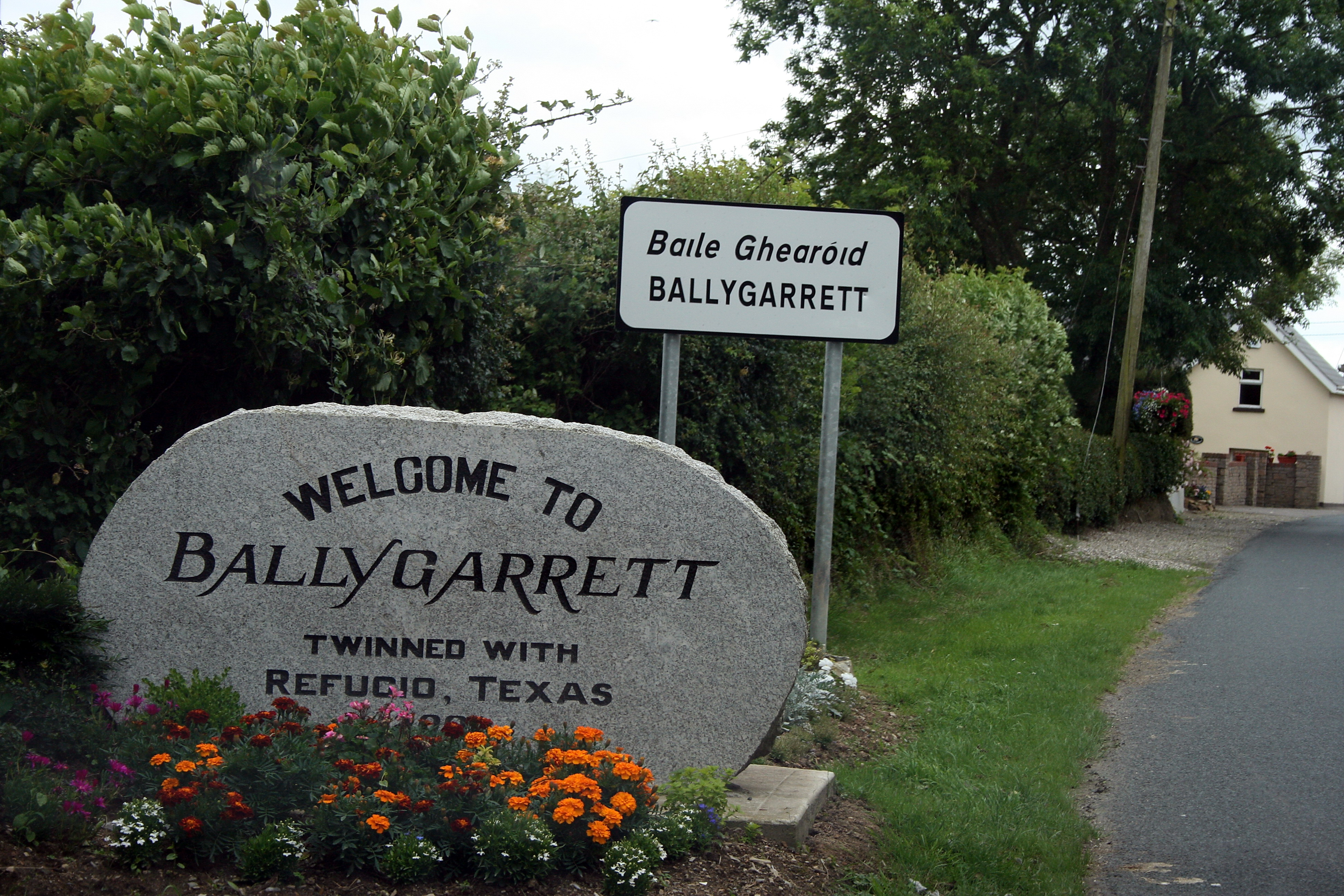 Ballygarret, County Wexford, Ireland